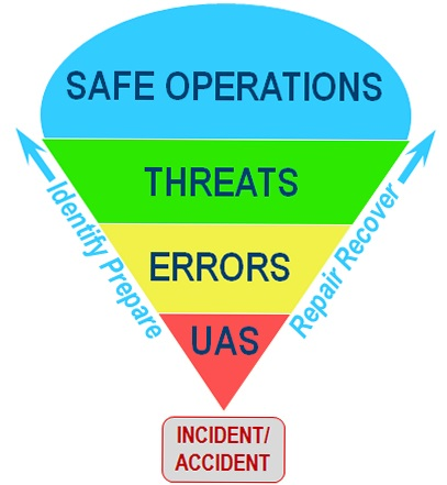 Threat and error management model